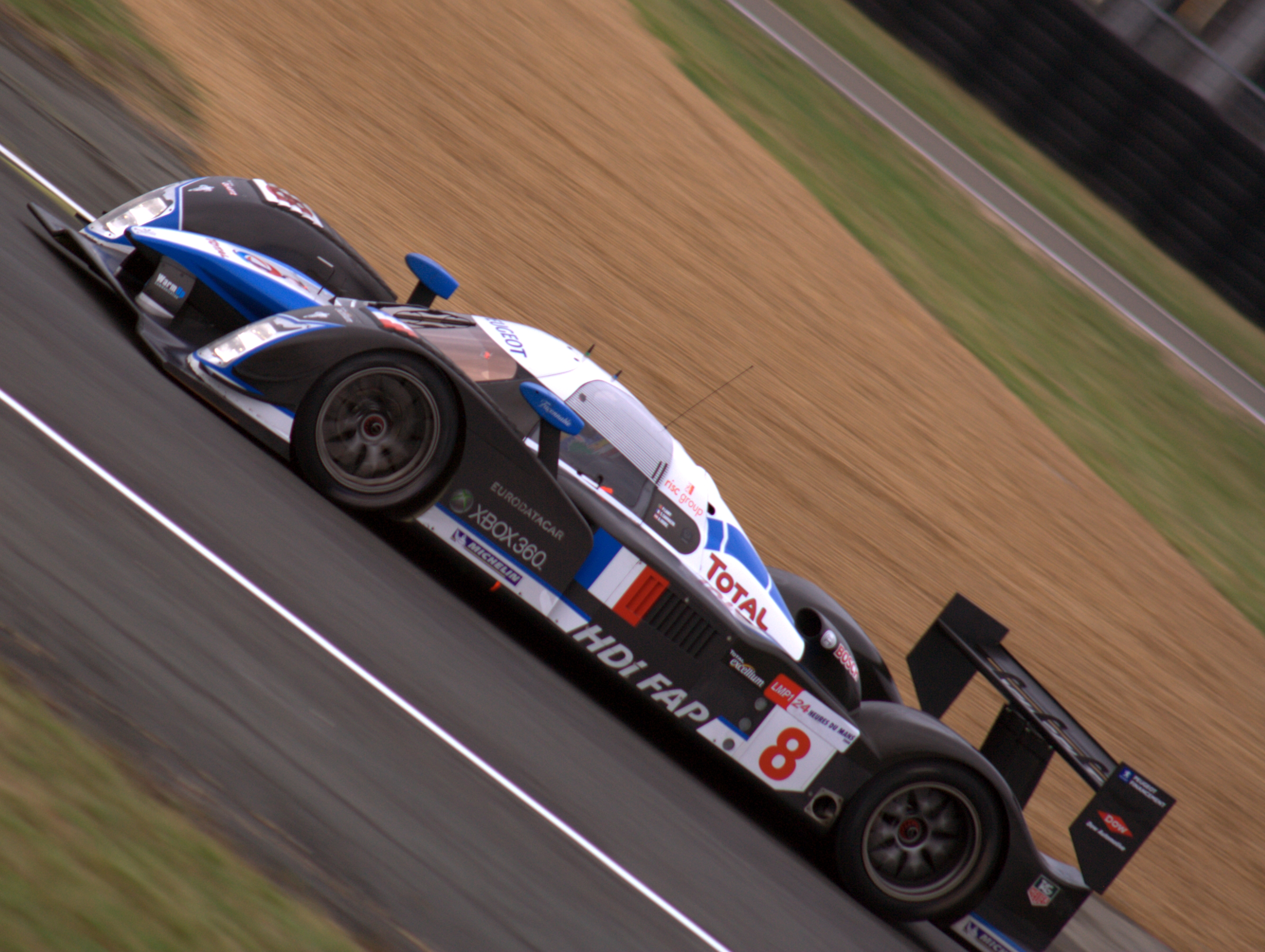 Peugeot 908 driven by Alexander Wurz at the testday of the 24h Race of Le Mans 2008